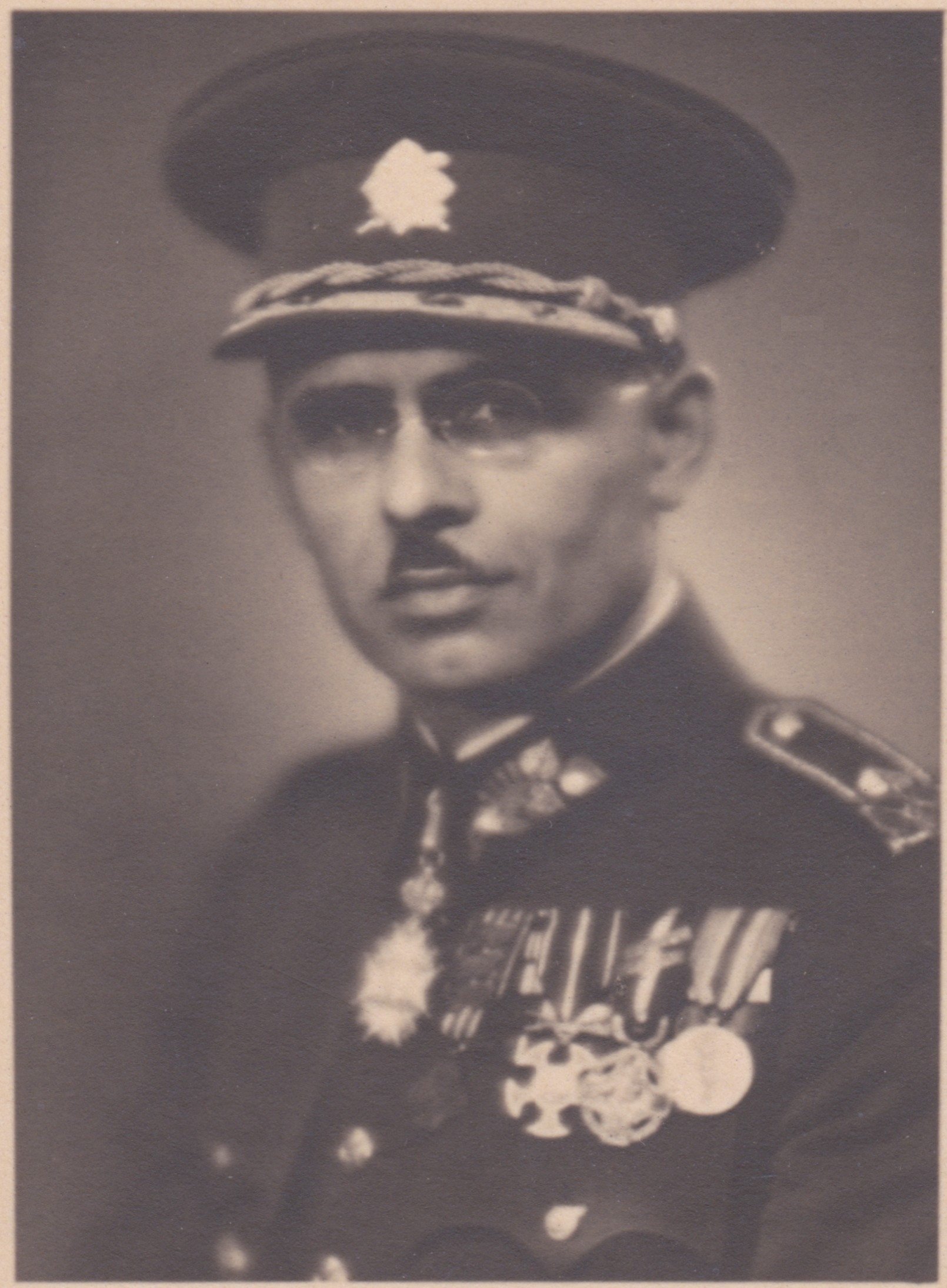 Army General Vojtech (Boris) Luza (1891 - 1944) was a Czech general, legionnaire of First World War, a leading representative of the Czechoslovak anti-fascist resistance. Photograph is from the early 30s of the twentieth century. Here is as an educator and commander (1932-1935) of school of war. Photo was in the centre of tablo of war school by graduates, class XIII. (1931-1934), Prague.